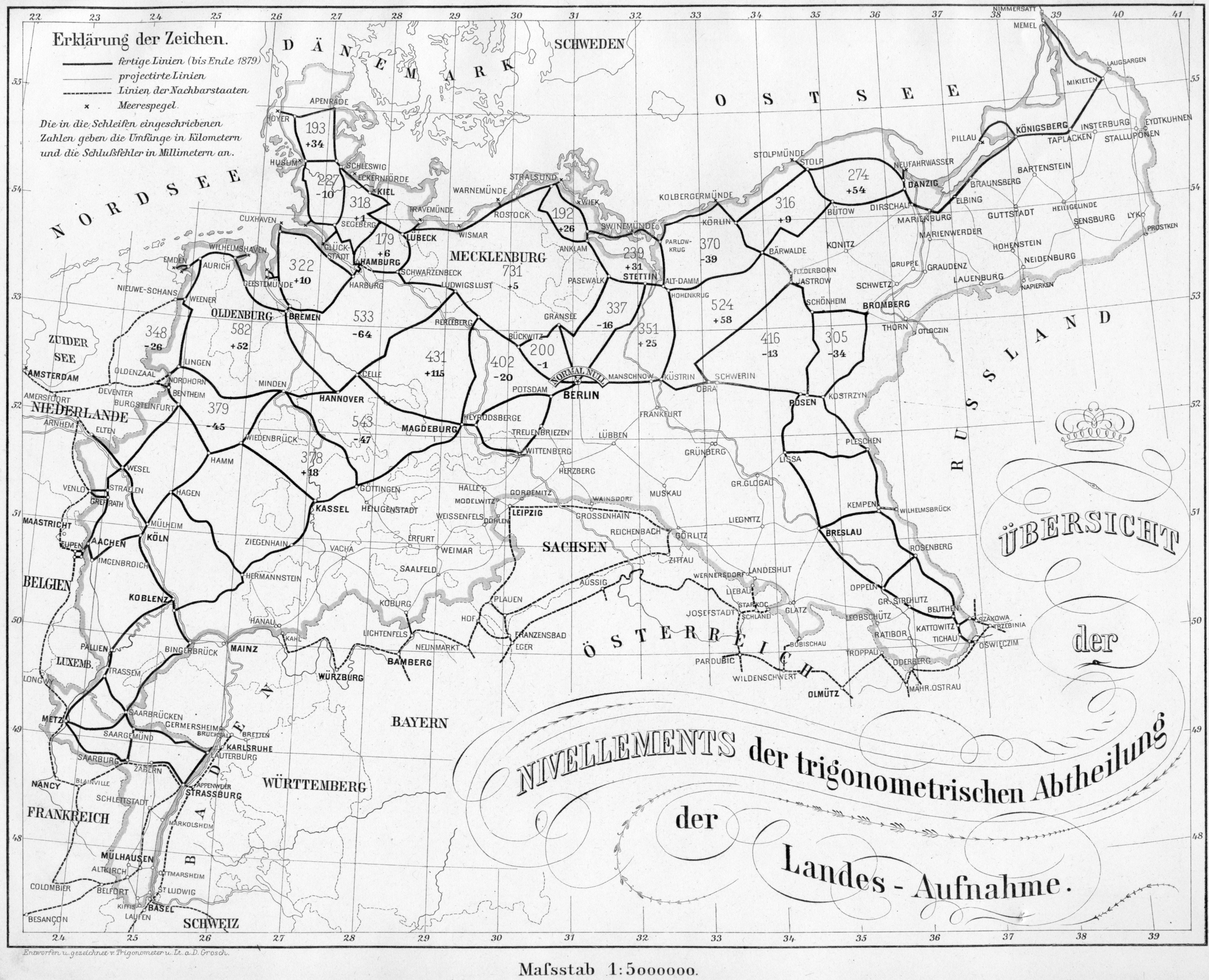 German levelling network 1879